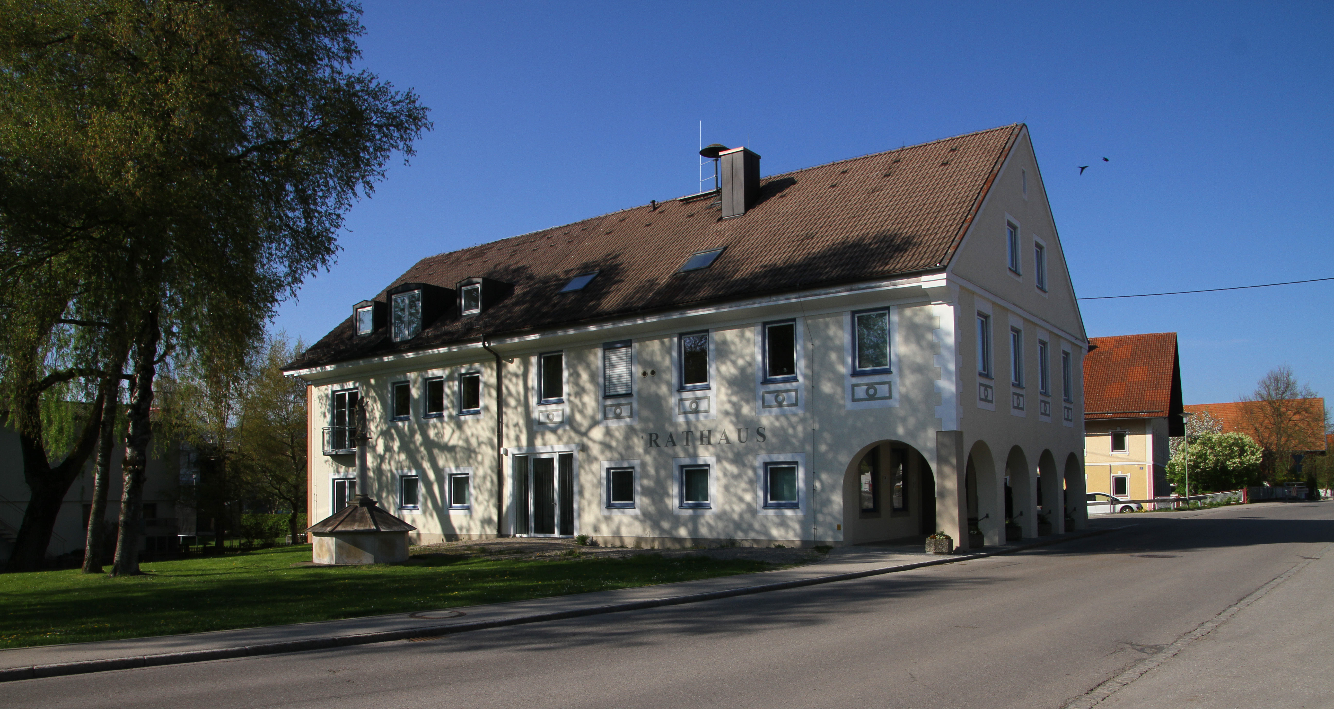 Altenstadt (Upper Bavaria)